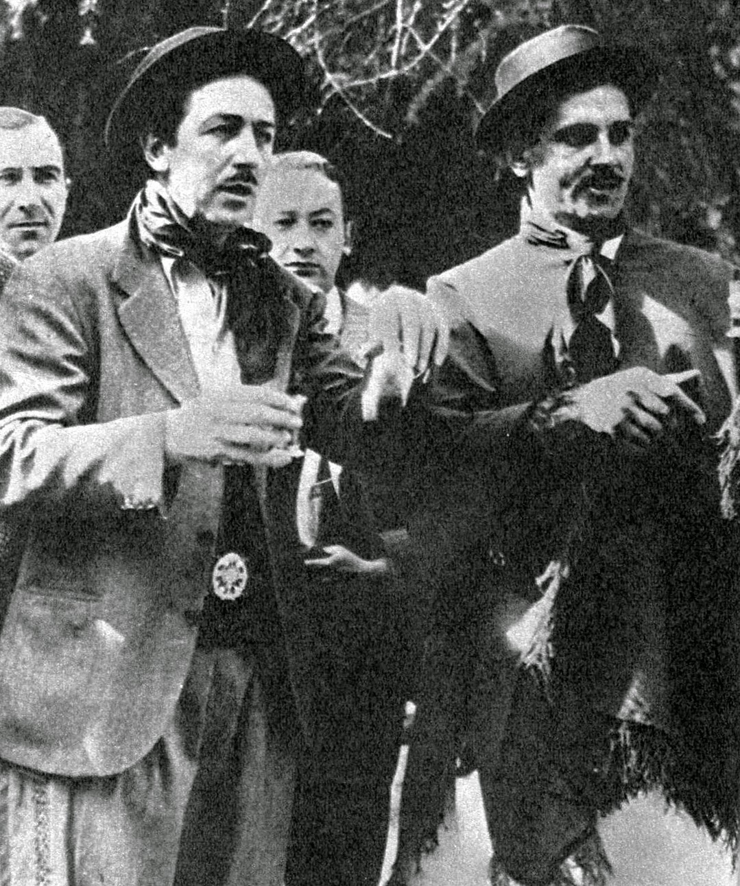 Lino Palacio y Walt Disney